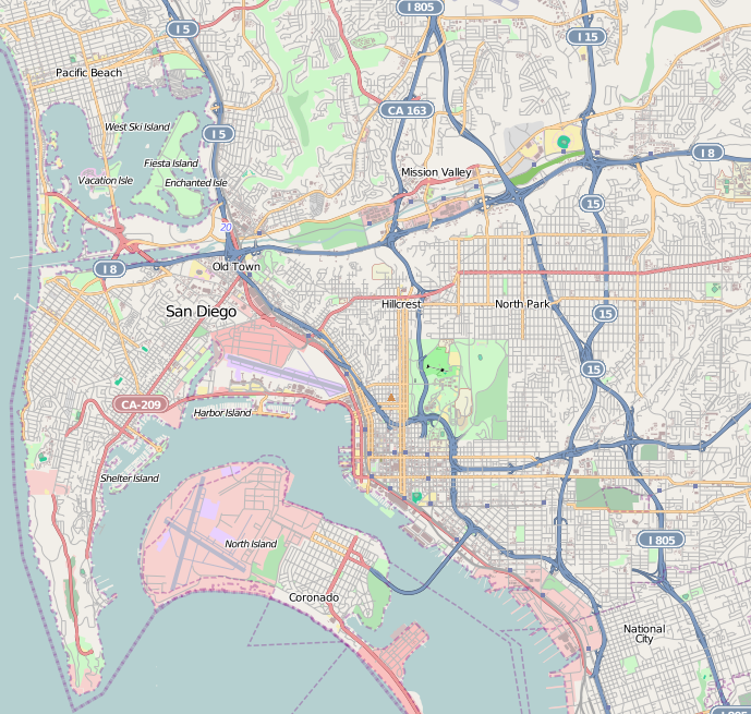 This map of Central San Diego was created from OpenStreetMap project data, collected by the community. This map may be incomplete, and may contain errors. Don't rely solely on it for navigation.